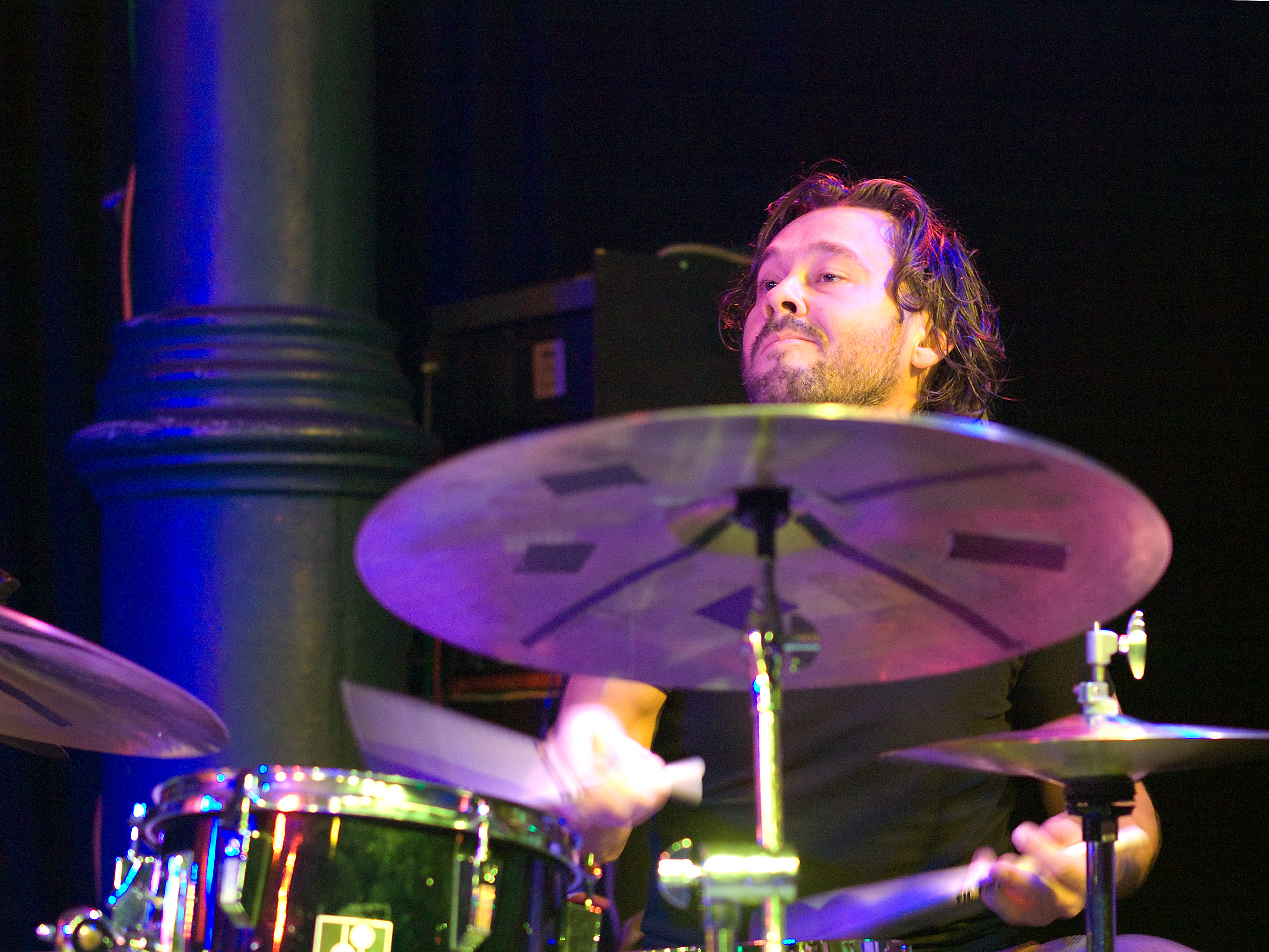 Dejan Terzic, jazz drummer; Picture taken in Jazz Club Unterfahrt, Munich/Bavaria